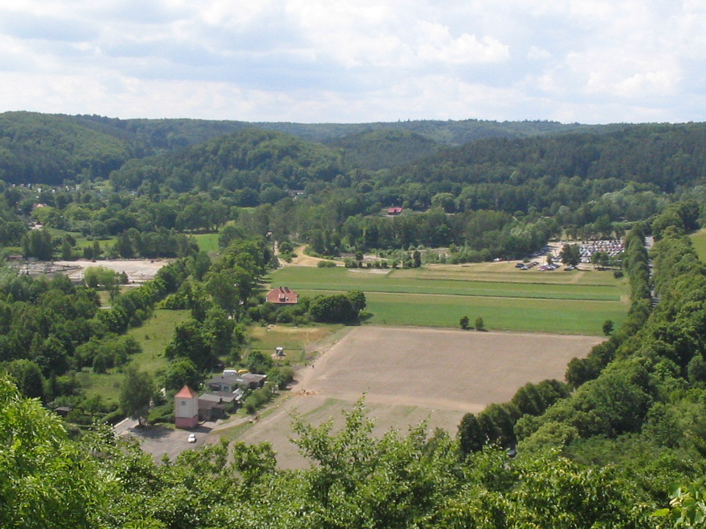 Countryside Gdansk Oliwa, july 2005, Poland.